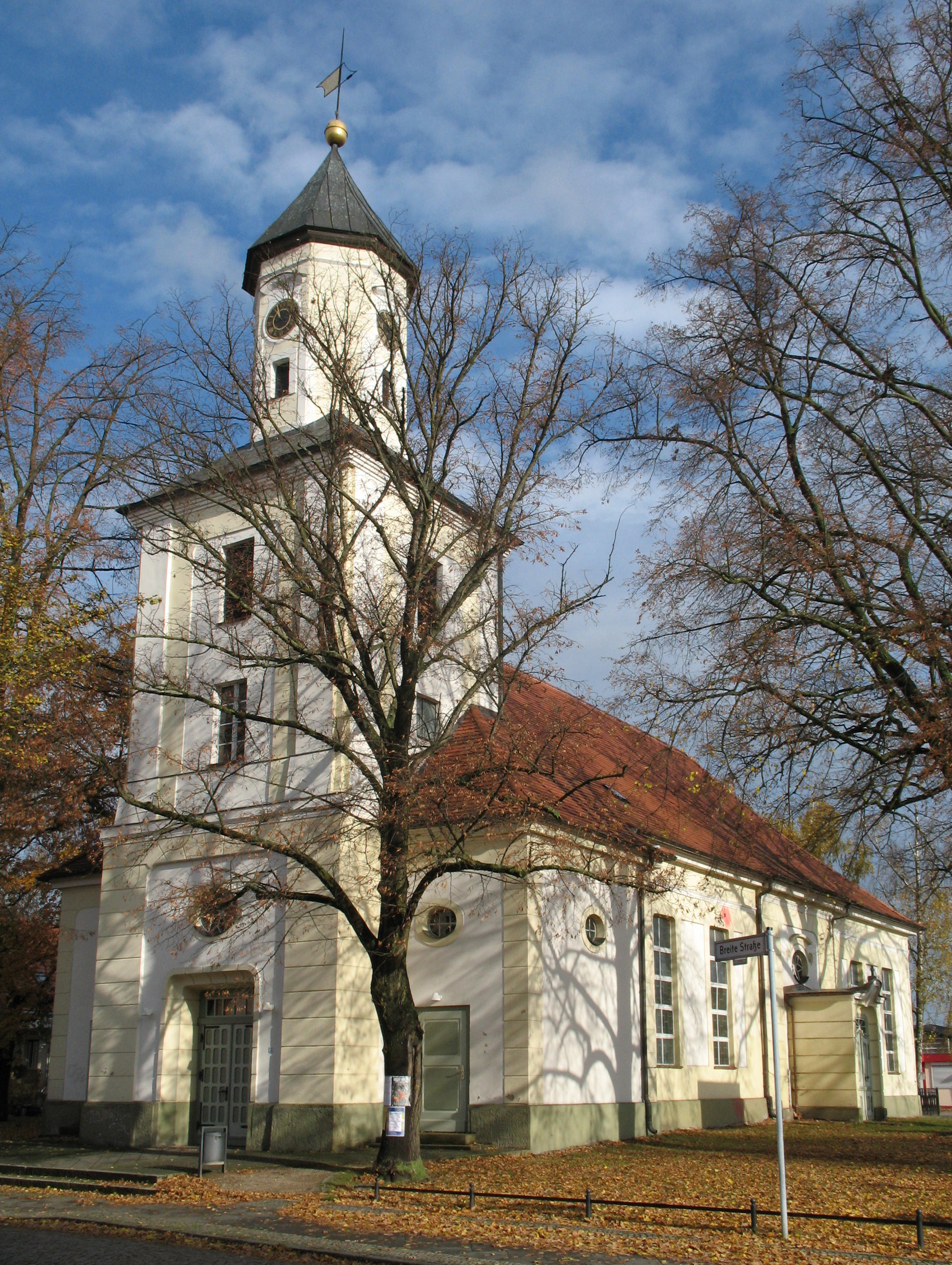 Church in Velten in Brandenburg, Germany